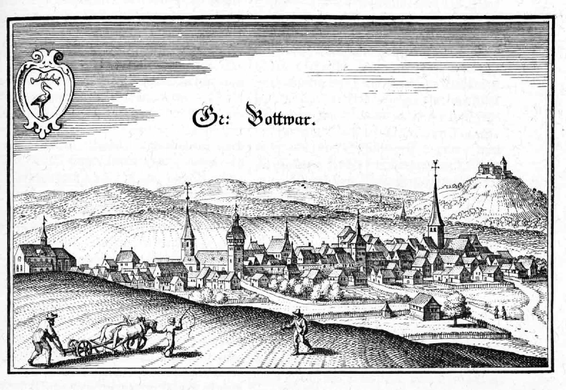 Großbottwar in about 1640. Illustration from Matthäus Merian's Topographia Sveviae, 1643/56